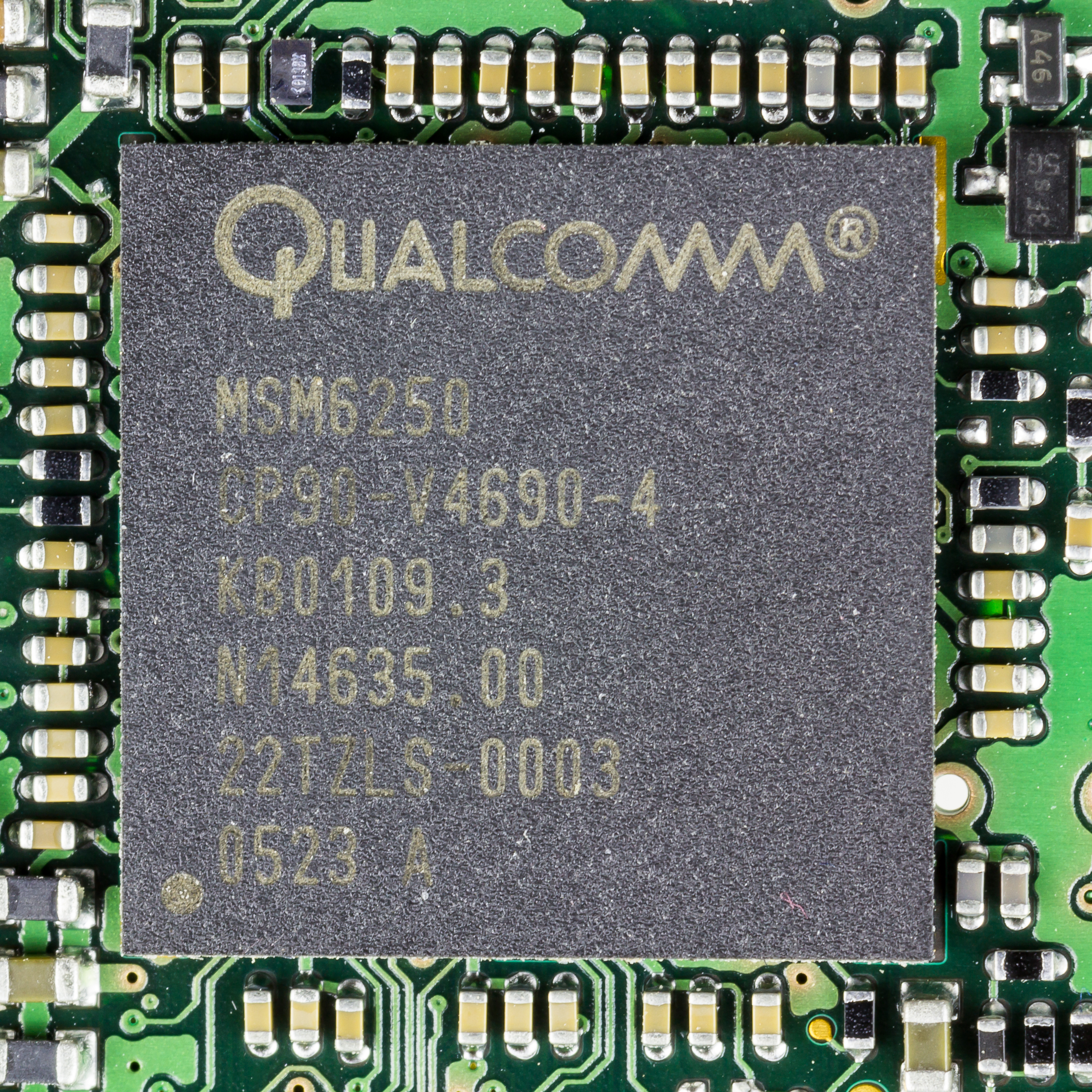 Option PC Card GT 3G Quad - Qualcomm MSM6250 - Mobile Station Modem chipset